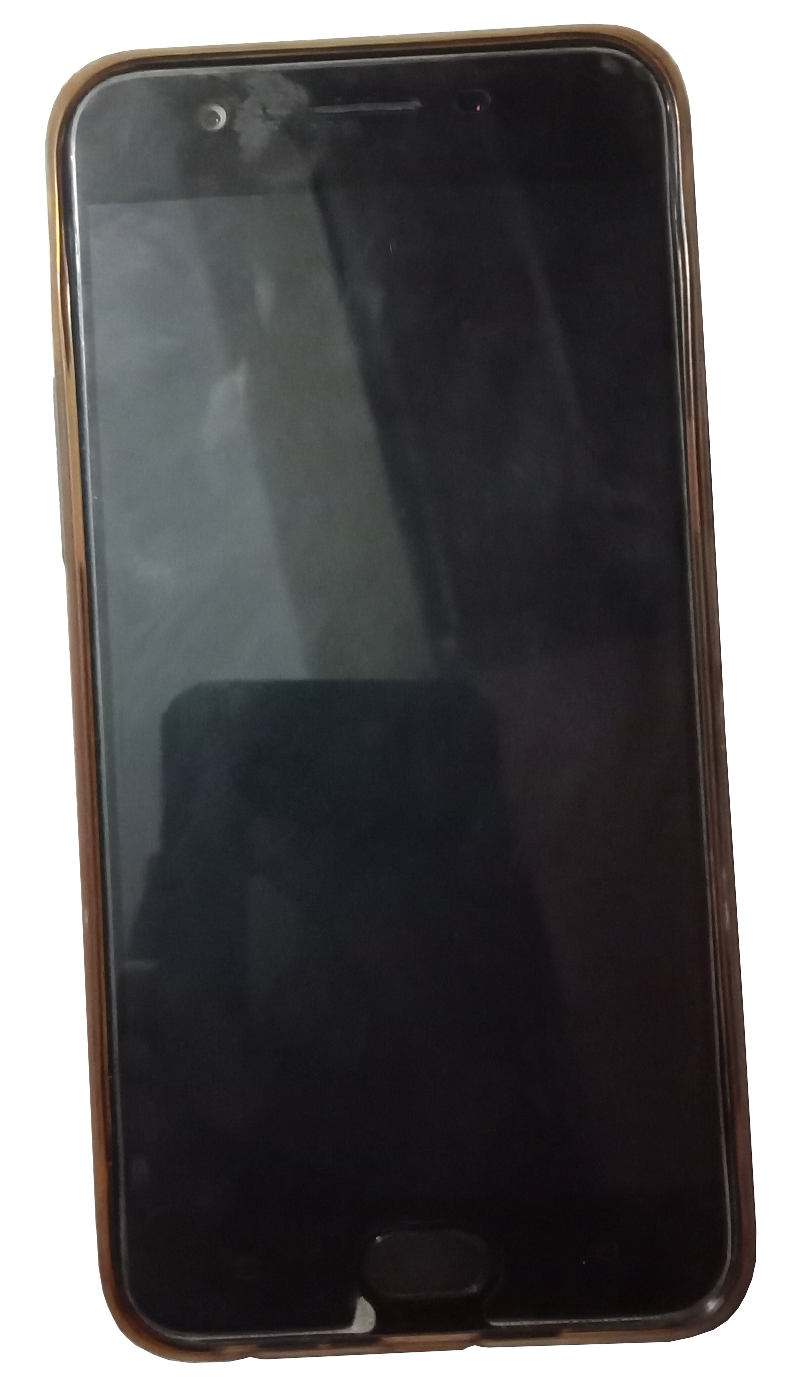 OPPO A57 black color;Other information: No more